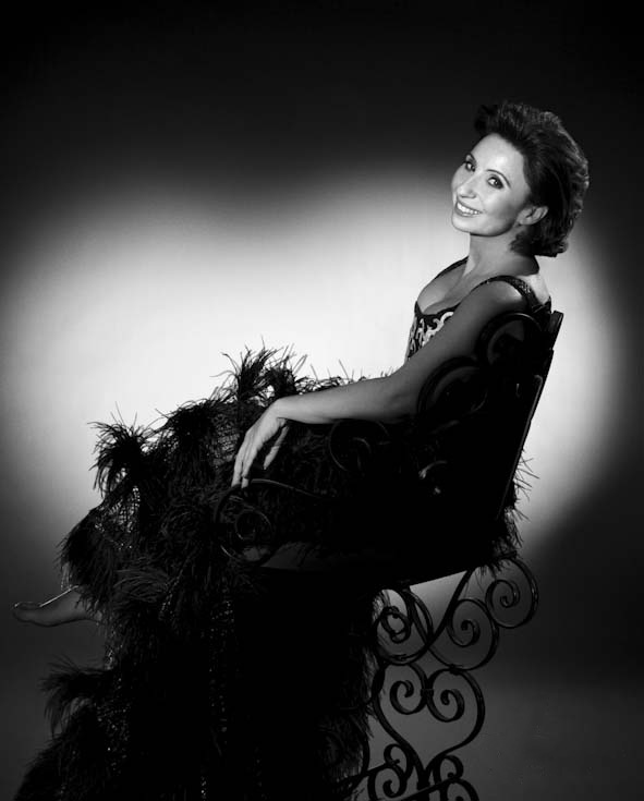 Ariane Ascaride photographed by Studio Harcourt Paris